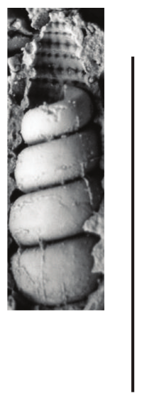 Black-and-white photo of abapertural view of paratype Potamides archiaci PG/K/Cr 45. Scale bar is 10 mm.